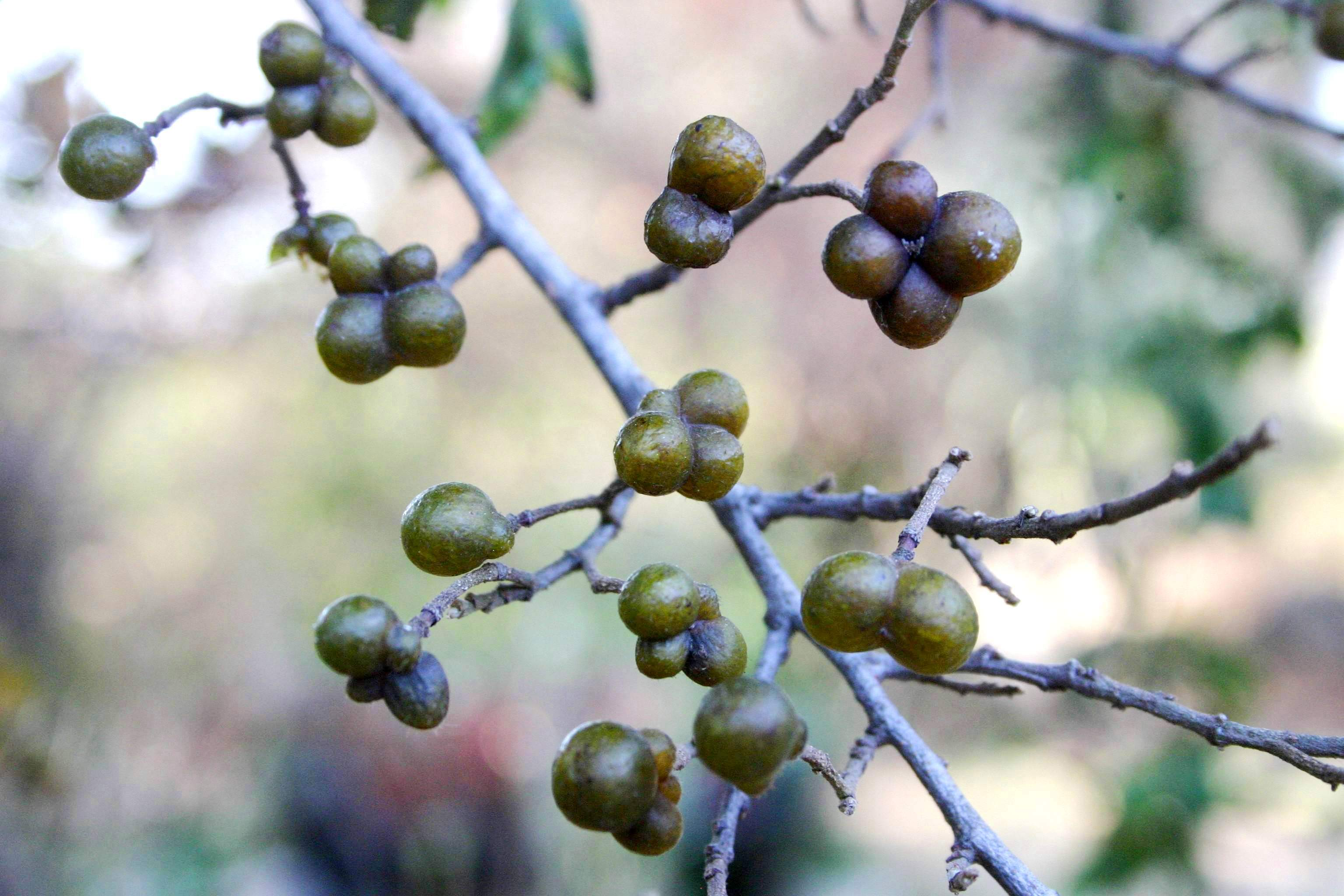 Fruit of Grewia occidentalis L. cultivated in Honeydew, Gauteng